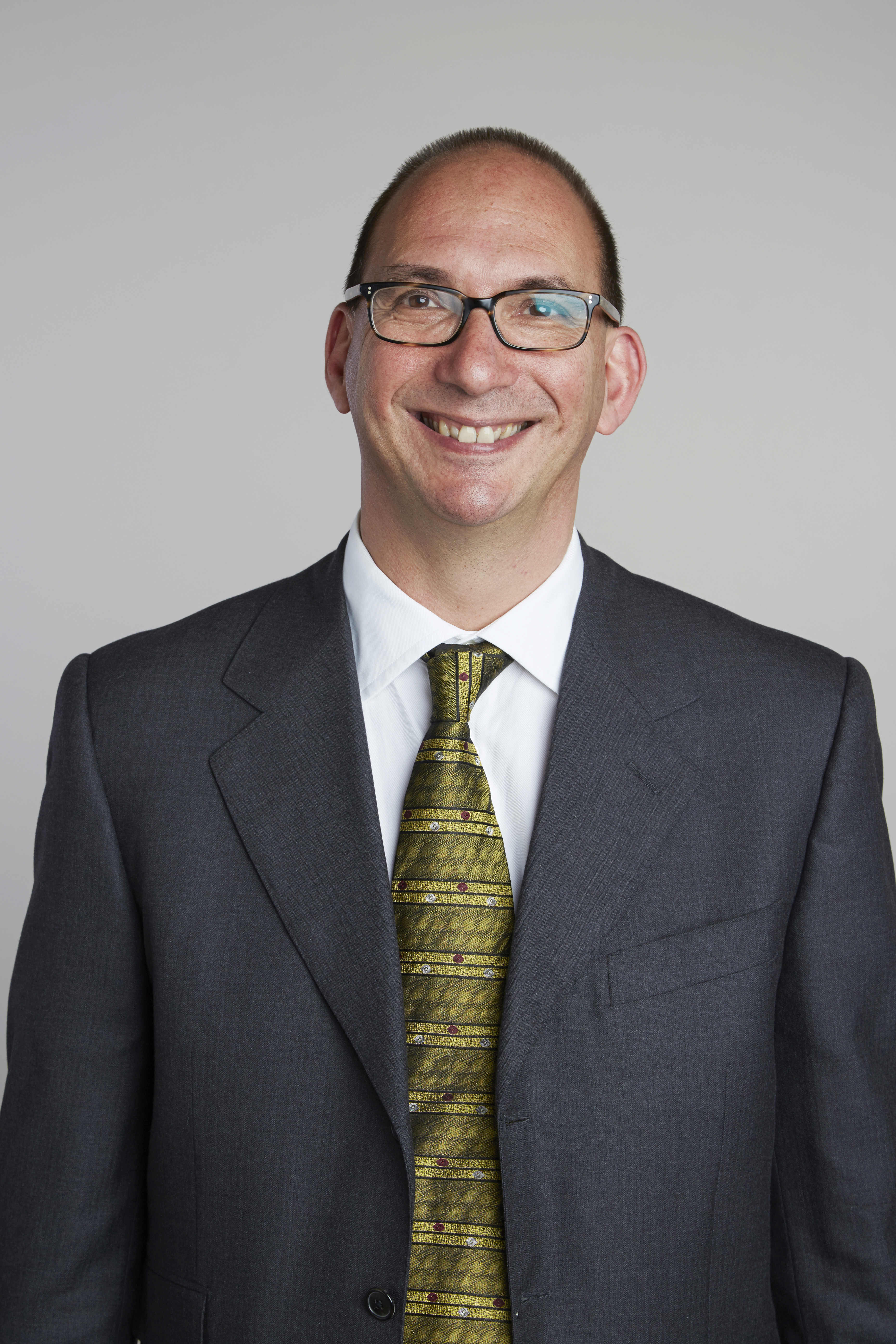 Jonathan Pila is an Australian mathematician based at the University of Oxford. He completed his BSc at the University of Melbourne and his PhD at Stanford, under the supervision of Peter Sarnak. He has held posts at Columbia, McGill, Bristol and (as a visiting member) the Institute for Advanced Study. Jonathan also took a substantial break from professional mathematics to work in his family’s manufacturing business. His research interests lie in number theory and model theory. A focus has been applying the theory of o-minimality to Diophantine problems. This work began with an early paper with Enrico Bombieri, and developed through collaborations with Alex Wilkie and Umberto Zaniier. The techniques obtained have led to significant advances in Diophantine problems, including Jonathan’s breakthrough unconditional proof of the André–Oort conjecture for powers of the modular curve. Jonathan is the recipient of a Clay Research Award and the 2011 London Mathematical Society Senior Whitehead Prize, and is a co-recipient of the 2013 ASL Karp Prize. He was a plenary speaker at the 2014 International Congress of Mathematicians. Attribution: The Royal Society